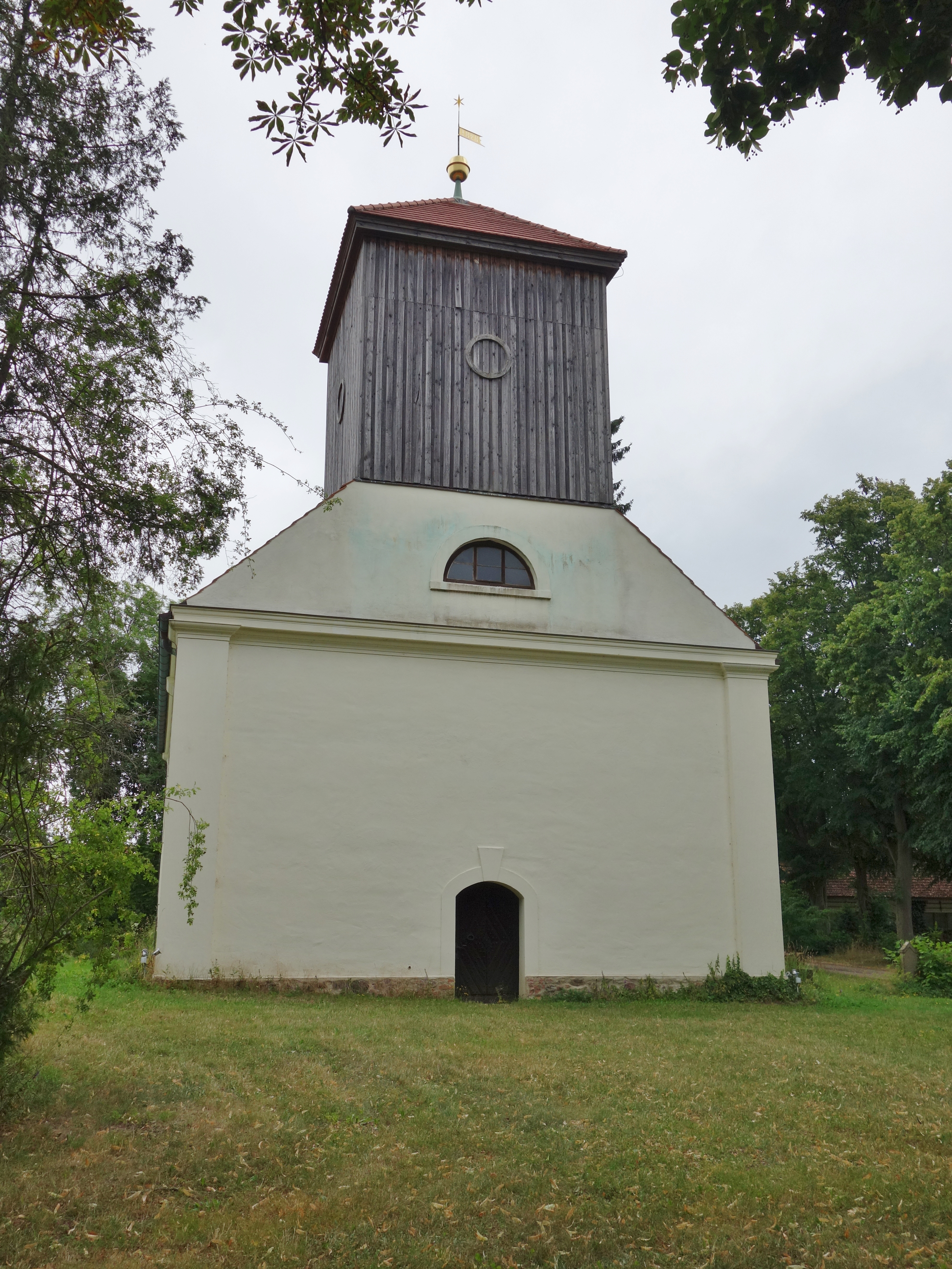 Western view of the church in Küstrinchen , Lychen municipality , Uckermark district, Brandenburg state, Germany